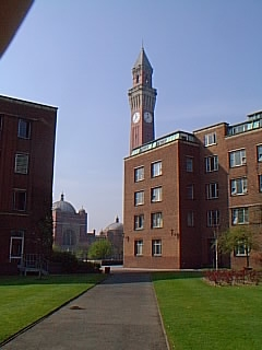 University of Birmingham View towards the Aston Webb Building from the foot of the Muirhead Tower Humanities/Arts building is on the left, Main Library is on the right, and the Chamberlain Tower stands behind the Main Library.